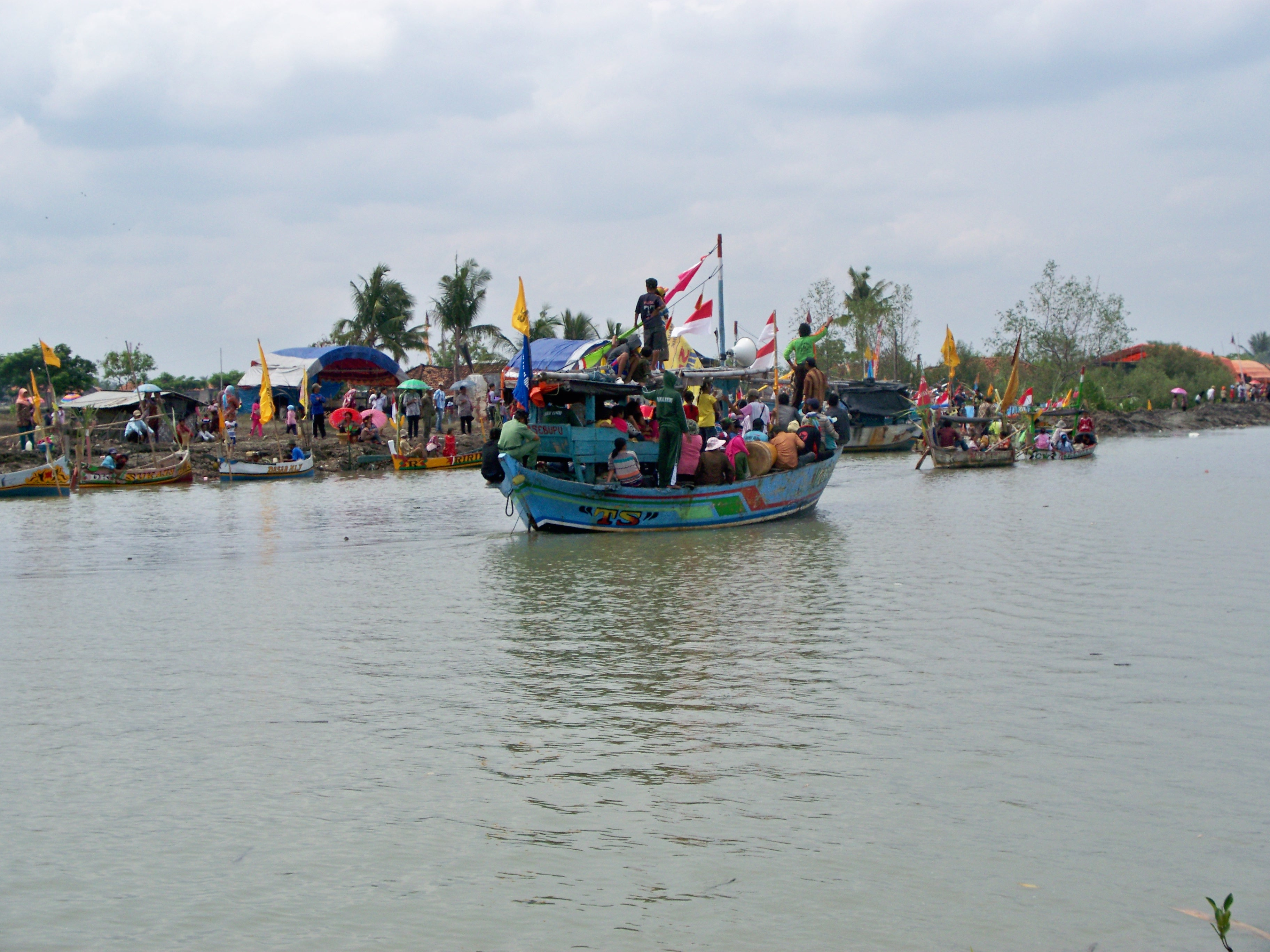 Nadran is a ceremony aimed at asking for a good fish catch or celebrating one